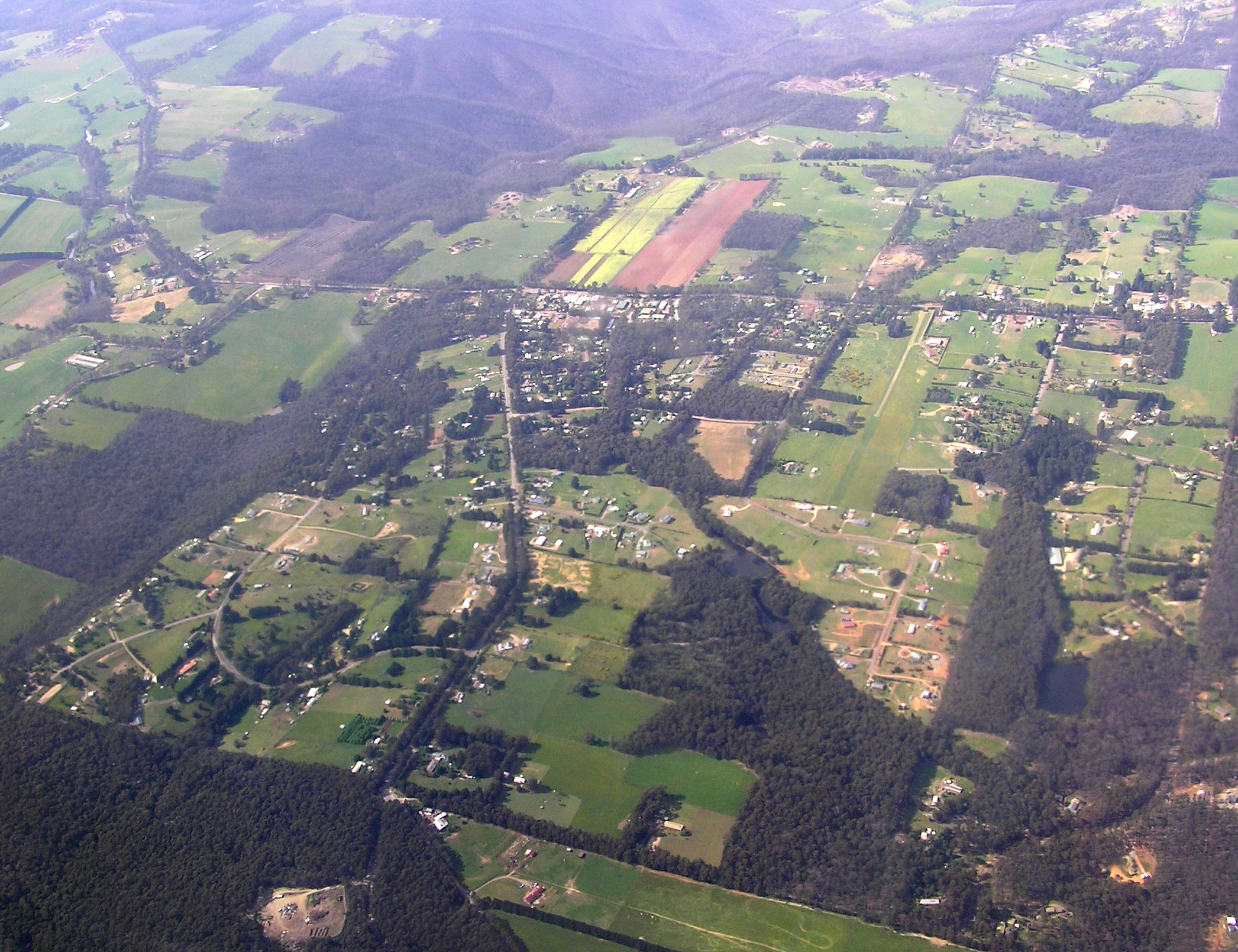 aerial view of Pheasant Creek Victoria from north